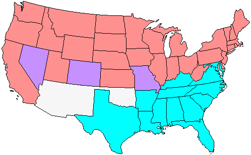 Composition of the 60th United States Senate in terms of political party by state. Self-made, using the map of state outlines from "Map of US Senate membership 2004-2006.png", also on Wikimedia Commons. Uploaded 2 September 2005.